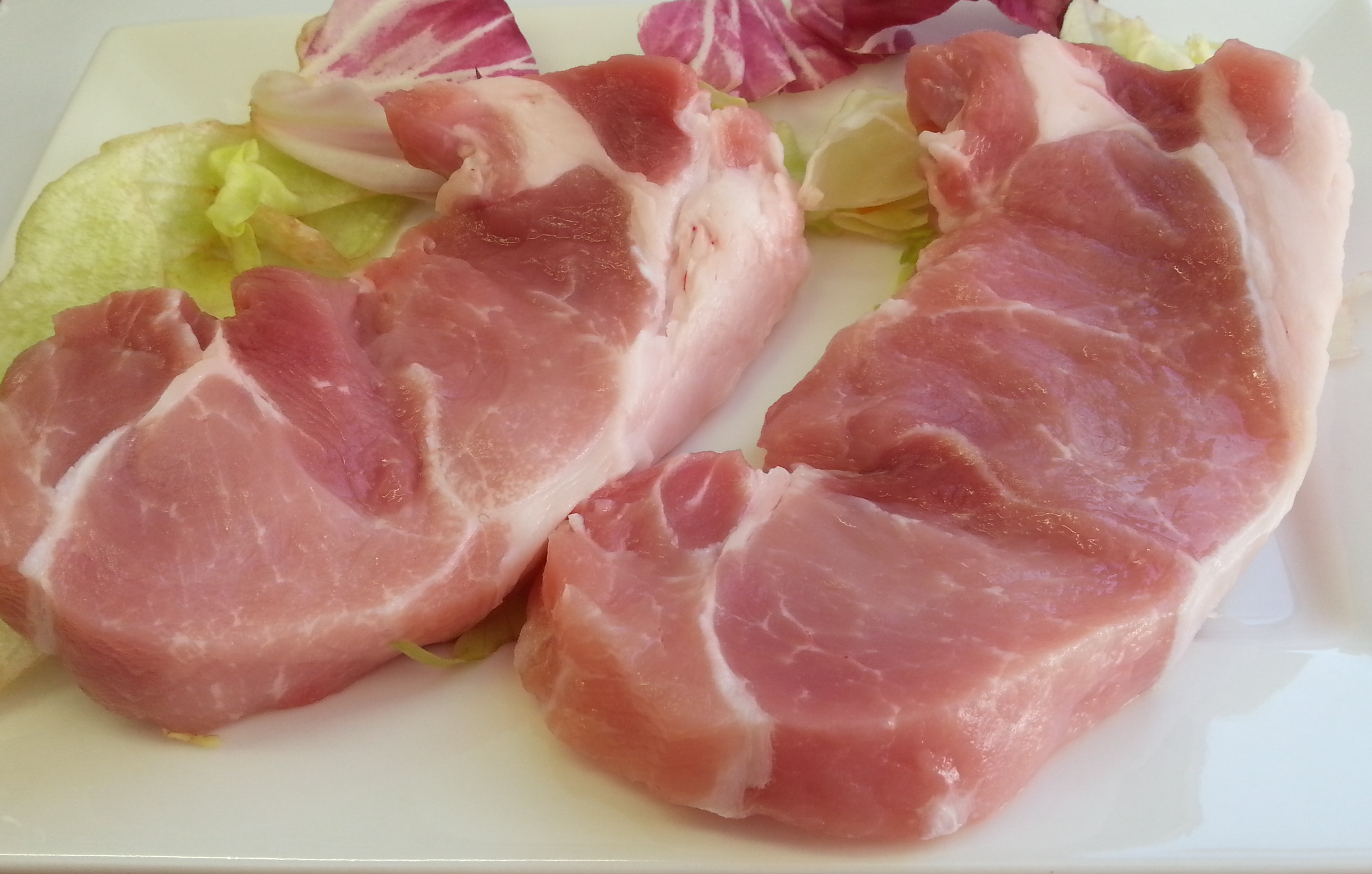 Pork meat